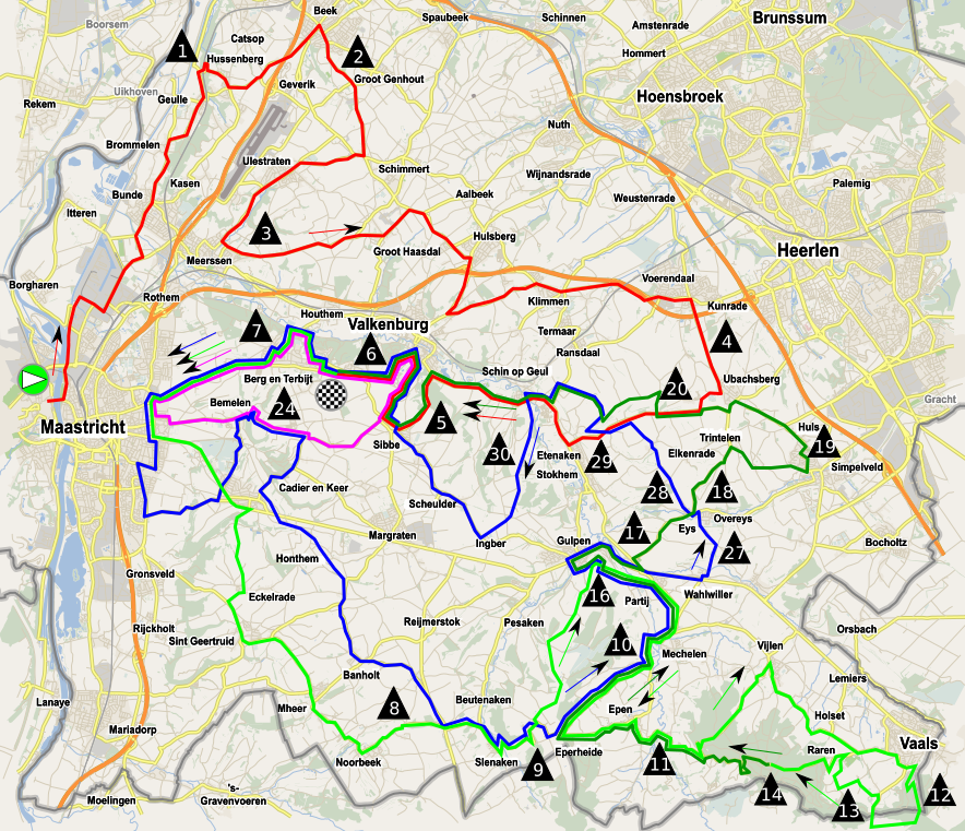 Map of the Amstel Gold Race 2016. Begin of the route in red, begin of the first lap in light green, end of the first lap in dark green, second lap in blue, third lap in pink.